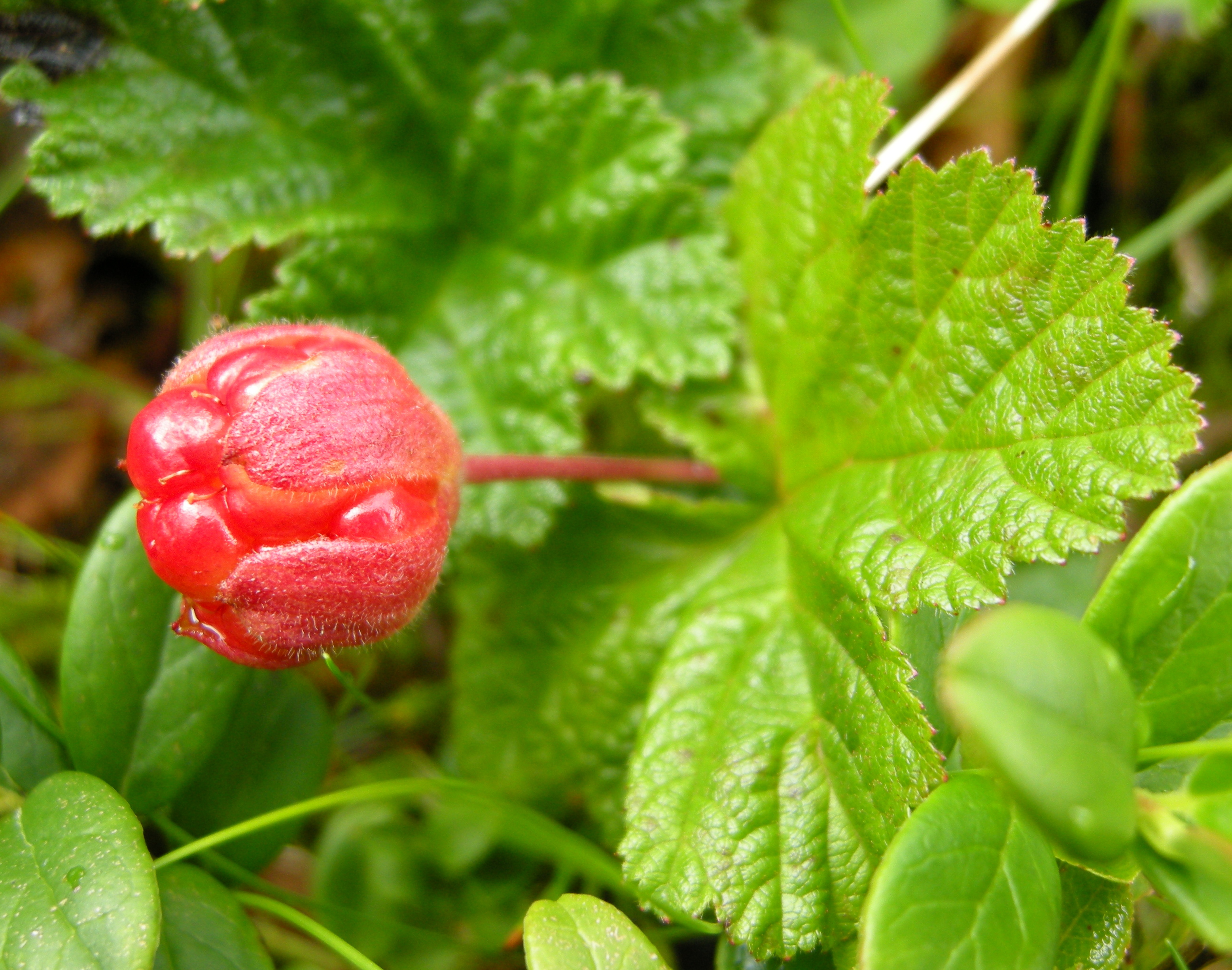 Rubus chamaemorus — Cloudberry, (not ripe yet). In Rogaland, Norway.